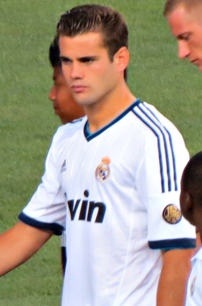 AC Milan and Real Madrid players enter the field. From left to right: Iker Cassilas, Massimo Ambrosini, Pepe, Christian Abbiati, Nacho, Ignazio Abate.